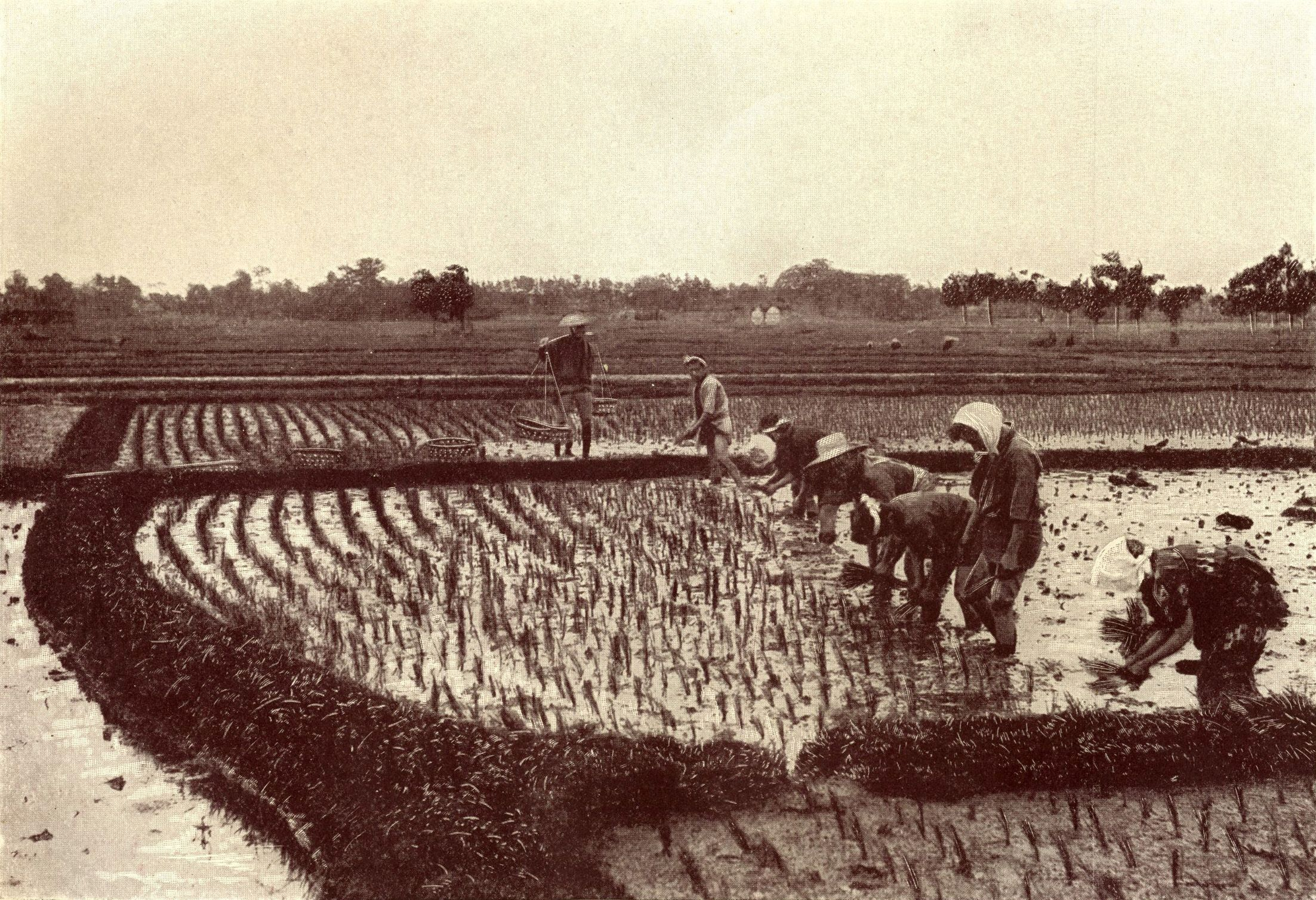 Rice planting in Japan. Image from the book "Japan And Japanese" (1902)